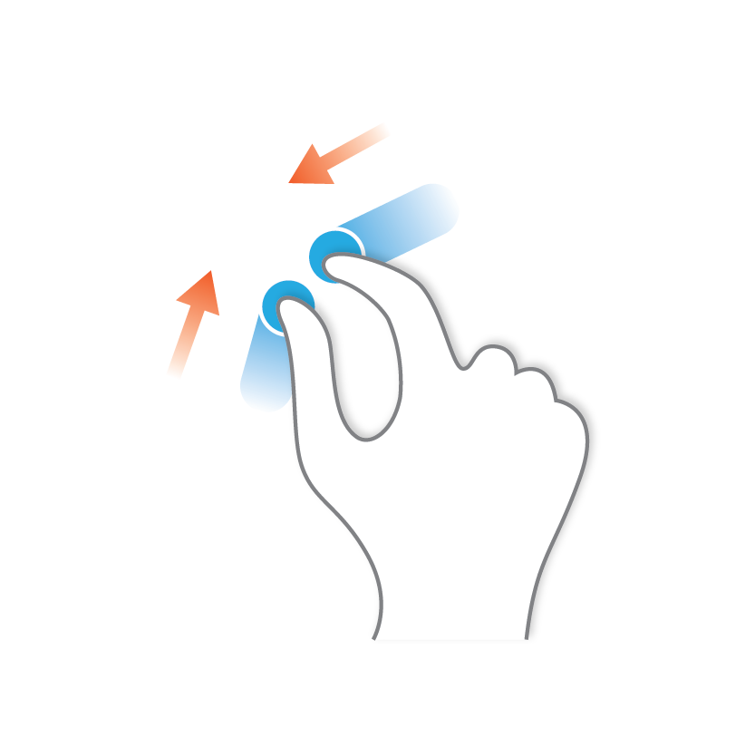 Touch surface and smoothly drag two fingers together